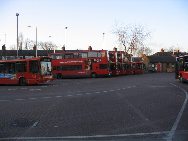 Ilford bus station. This area is near to the busy centre of Ilford, but probably not the subject of many photographs. Despite this, it has much to geograph : ordinary suburban houses, car parks, flats and run-down small shops and businesses.